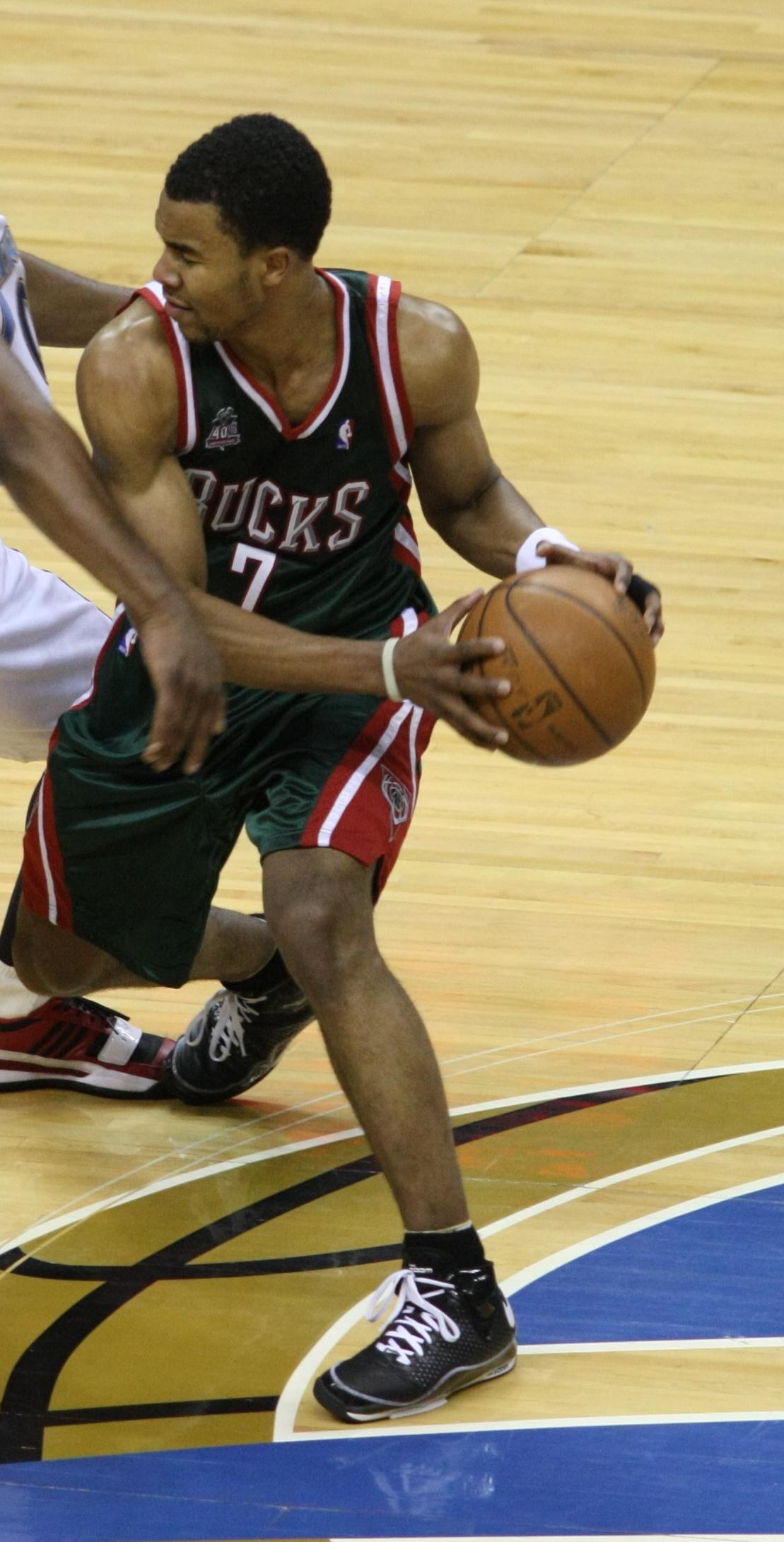 Ramon Sessions playing with the Milwaukee Bucks